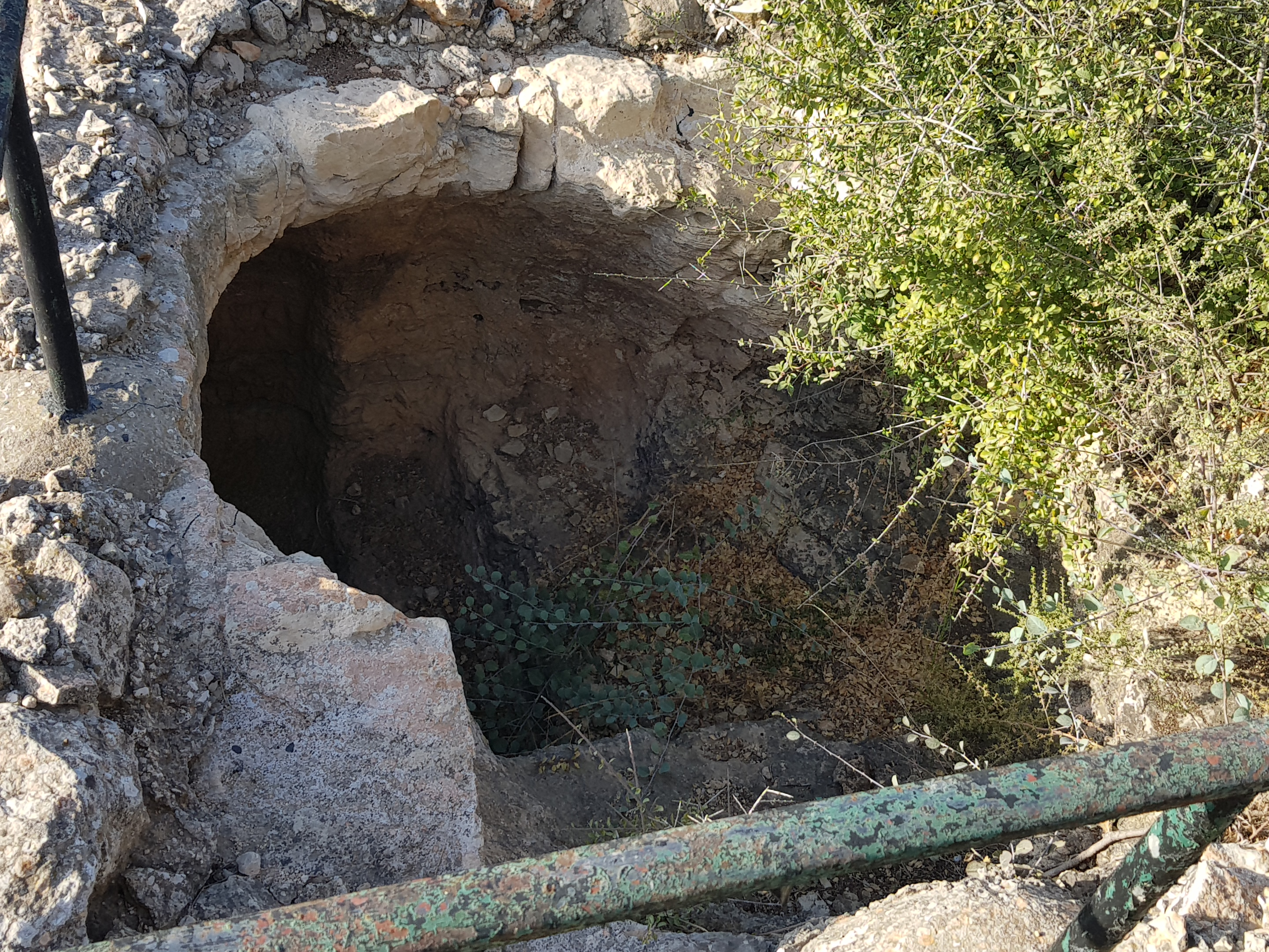 Findings on Hovela Hill11